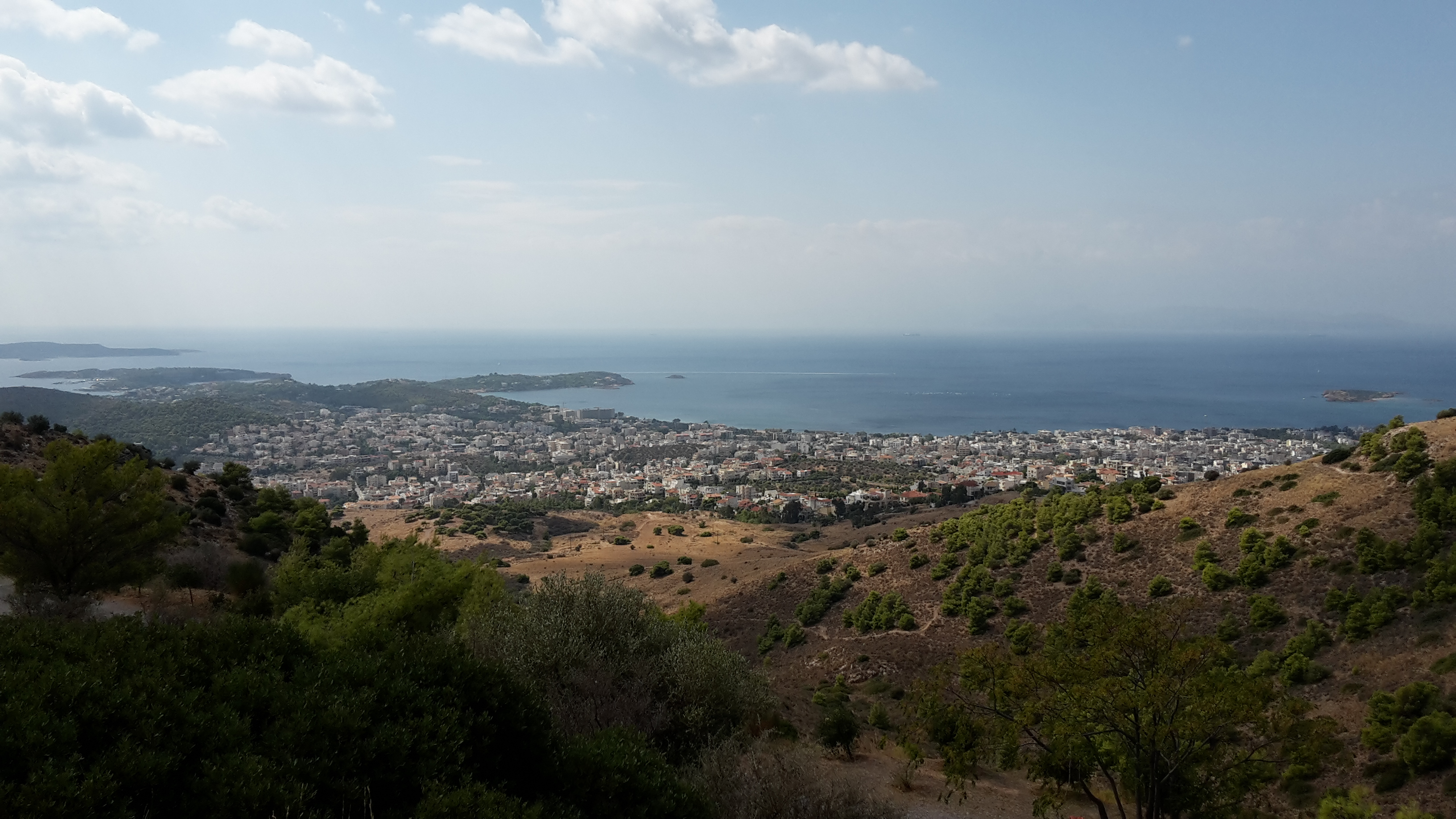 View of Voula and Vouliagmeni from the Cemetery of Voula